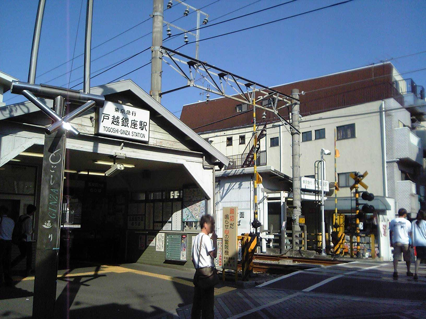 An entrance of Togoshi-Ginza Station.